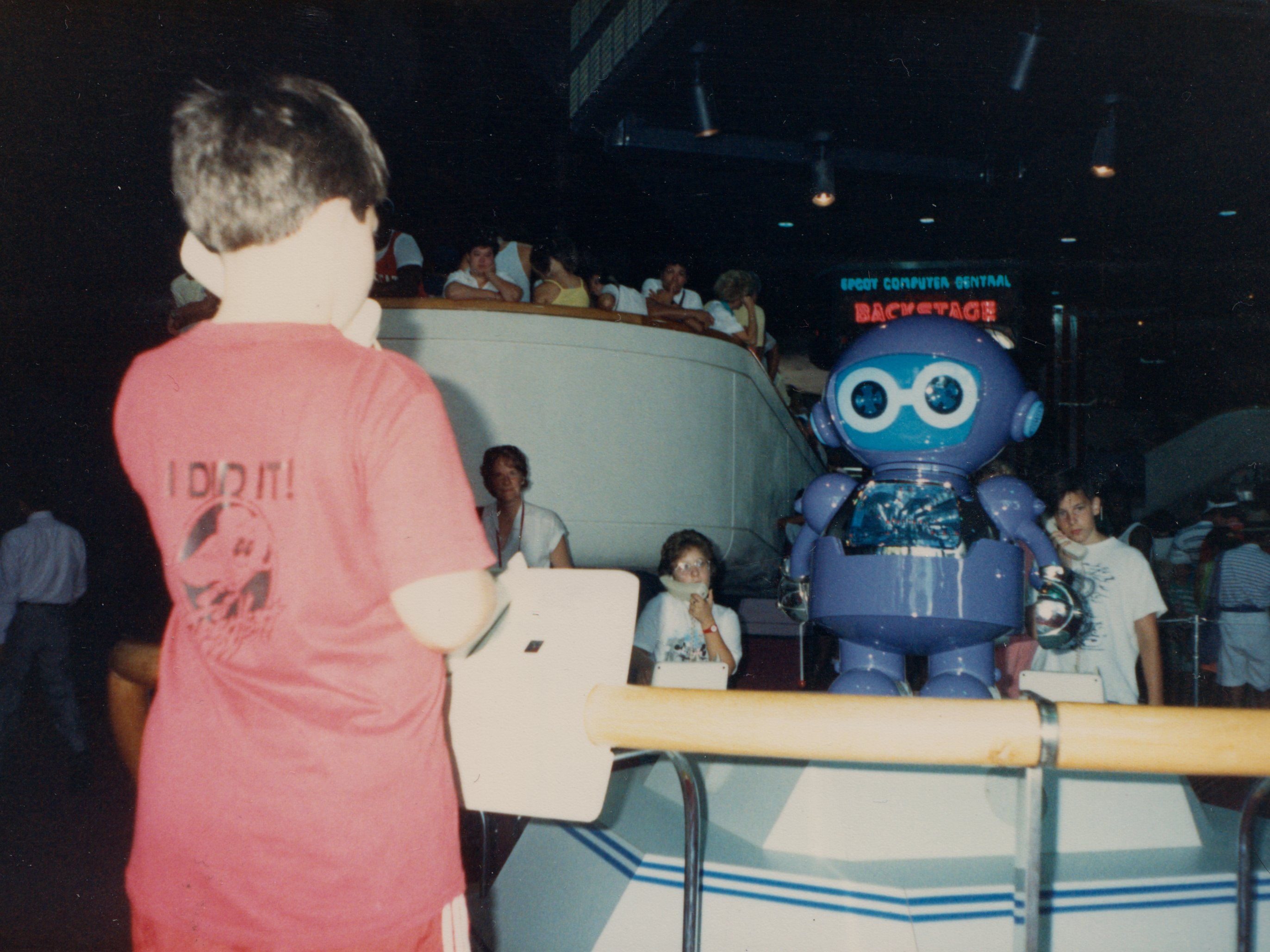 A child speaks to the SMRT-1 robot at the old CommuniCore attraction at what was then EPCOT Center at Walt Disney World.